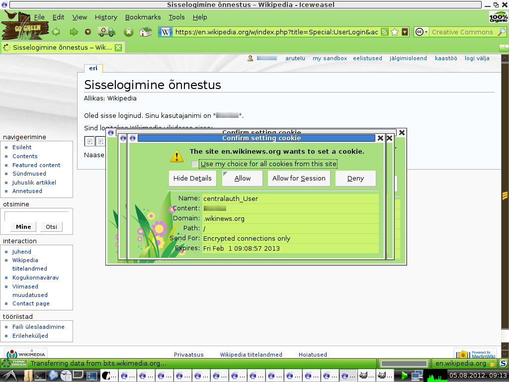 Multiple cookie notification windows caused by a website shown in Debian Iceweasel 3.0.6 running in Knoppix 6.0.1.Iceweasel is using the classic Go Green theme by Zamaan's Software. Go Green theme homepage (archived) Instructions to modify the theme (also archived). This theme appears to be compatible only with Firefox 3.0–3.6.[1]